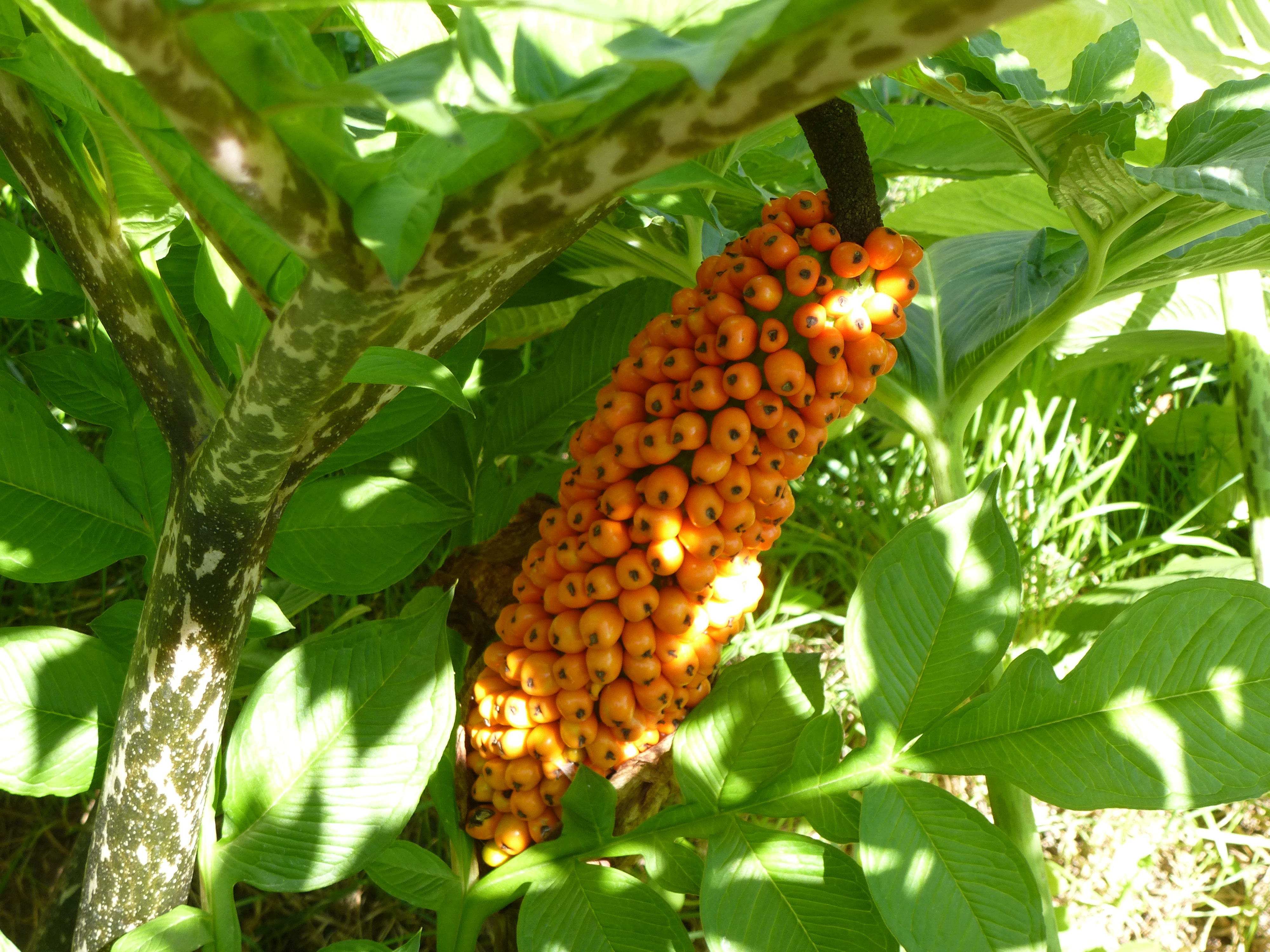 Konjac (Amorphophallus konjac), fruit. Jardin des Plantes, Paris, Ile de France, France.